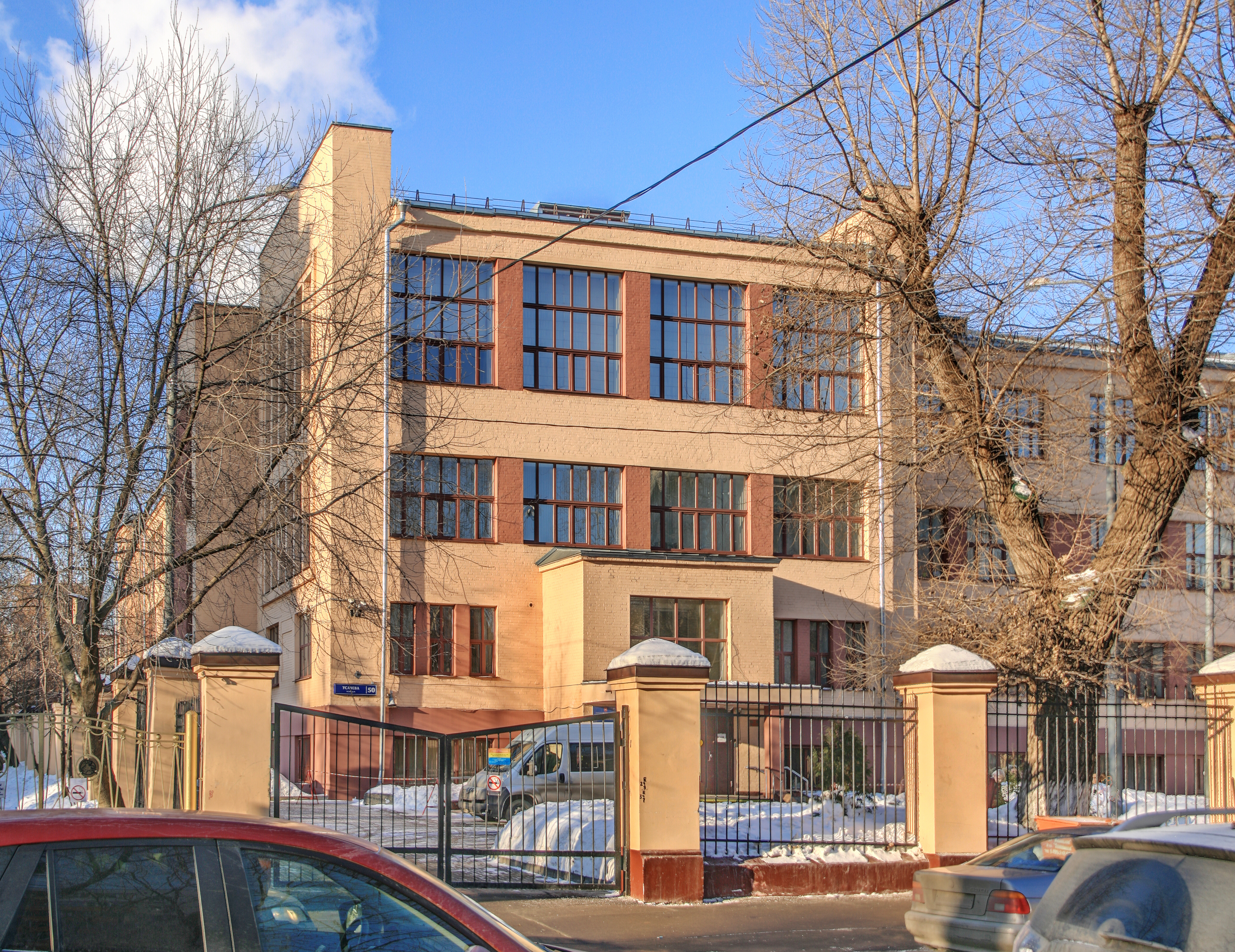 School building, Usachyova Street 50, Moscow